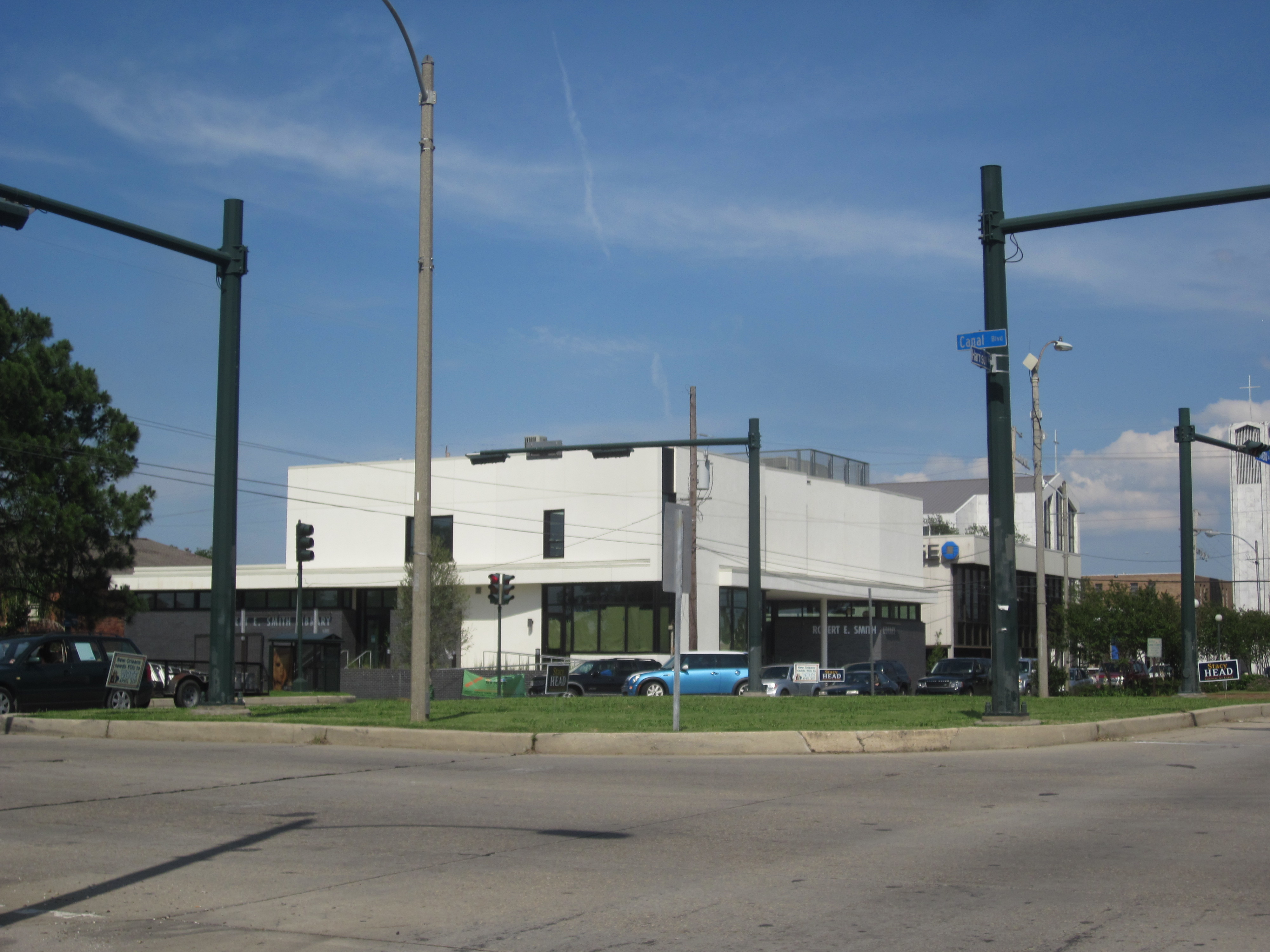 Lakeview section of New Orleans. Harrison Avenue. New Smith Branch New Orleans Public Library, opened at the end of March 2012, replacing old neighborhood branch library at same location demolished after major flooding in the Hurricane Katrina levee failure disaster of 2005. (In the years between, the area was first served by a bookmobile then by a temporary branch libary in a trailer nearby.)